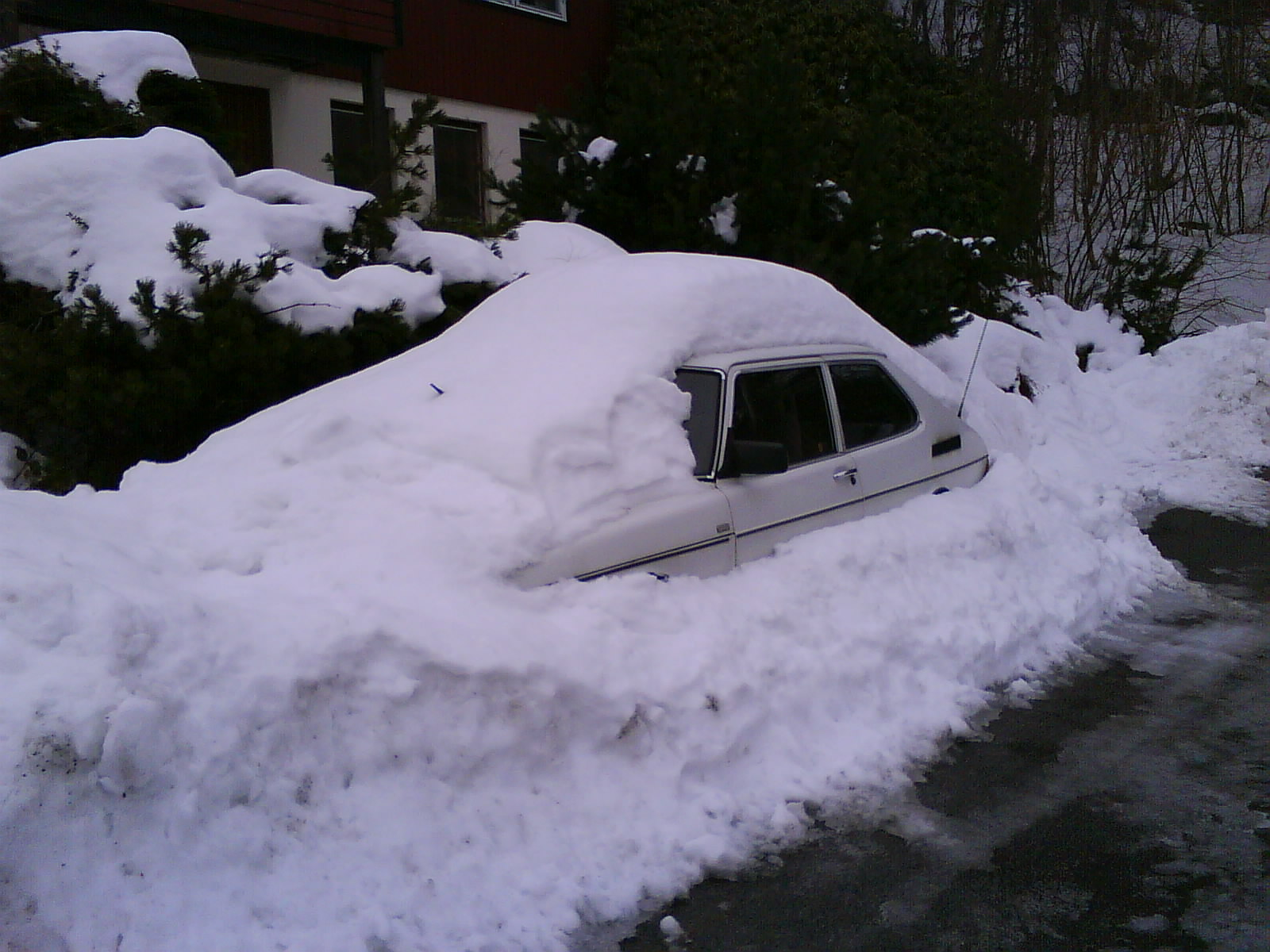 A SAAB half buried under snow in Onsala, Sweden, during the Winter of 2010.